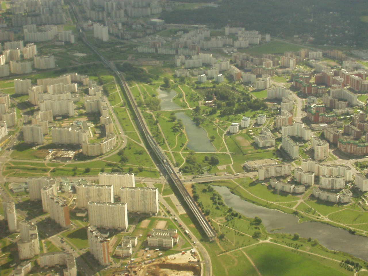 The terminus of Butovskaya line of the Moscow Metro, the Buninskaya Alleya station and the tilting dead-ends